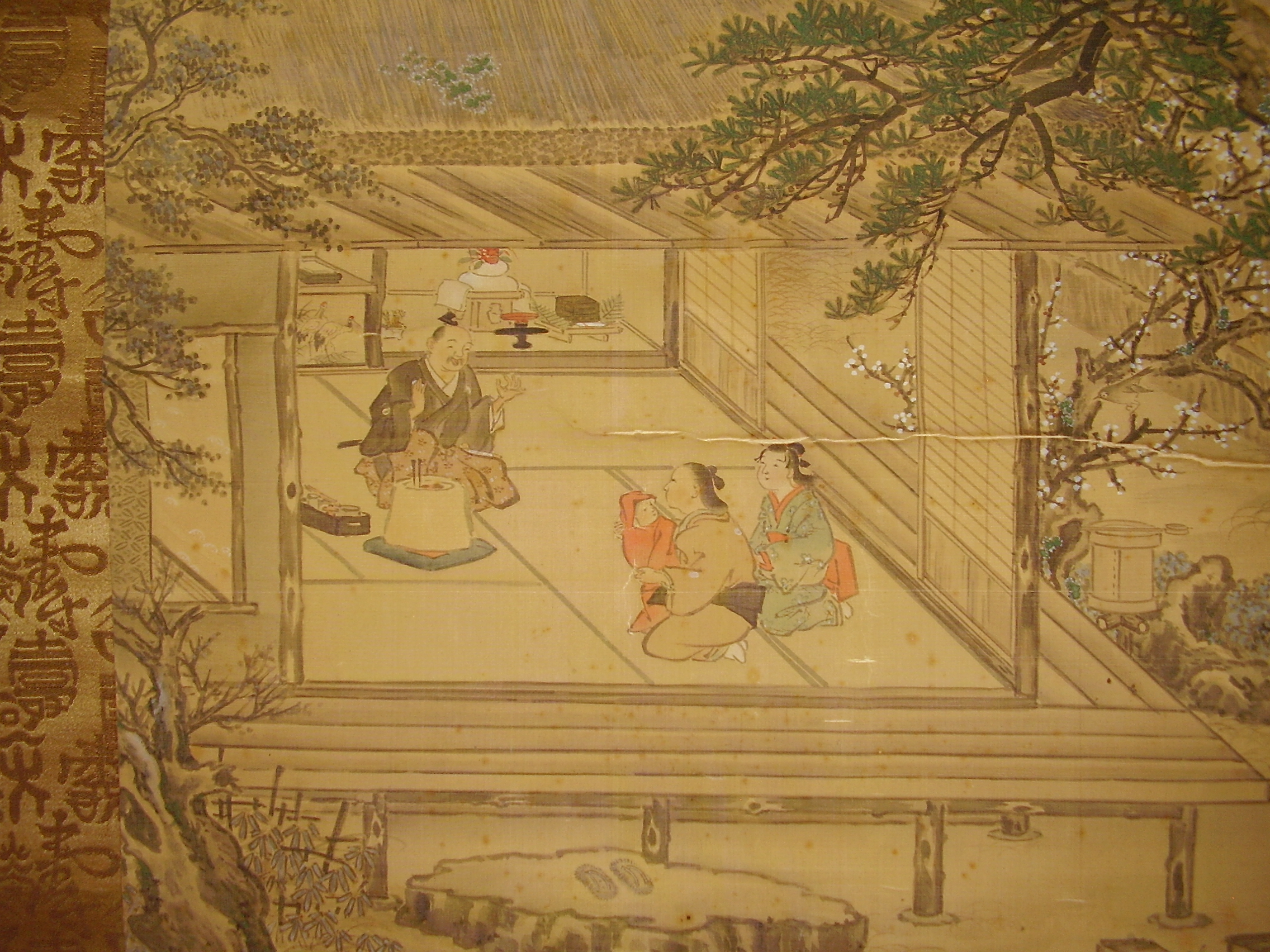 Detail (interior view) of a painting of an "idealised" traditional Japanese New Year celebration; it is somewhat unclear if the celebrations are being held on the "old" or "new" date for new year in Japan (Chinese traditional, or "Western" new year), possibly this is intended as a depiction of an "old date" celebration, given the tree-blossoms & more spring-like vegetation; second half of the 19th century, very late Edo period to Meiji era (more probably Meiji); painting is signed & sealed, artist not (yet) identified -- help needed!; handpainted on silk, kakejiku (scroll-mounted-painting)